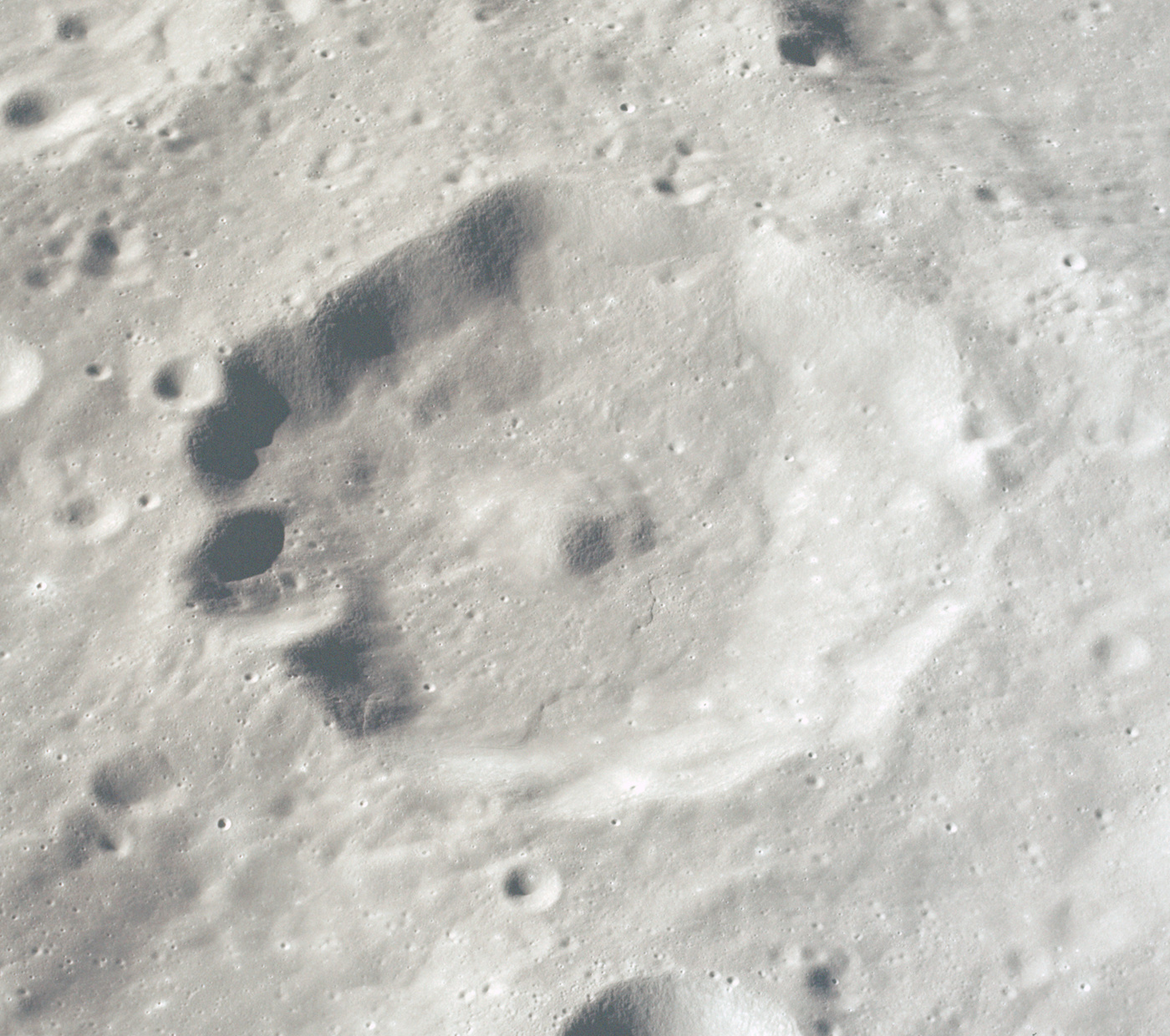 Oblique view of Chauvenet Q crater (southwest of Chauvenet), on the moon, facing south.